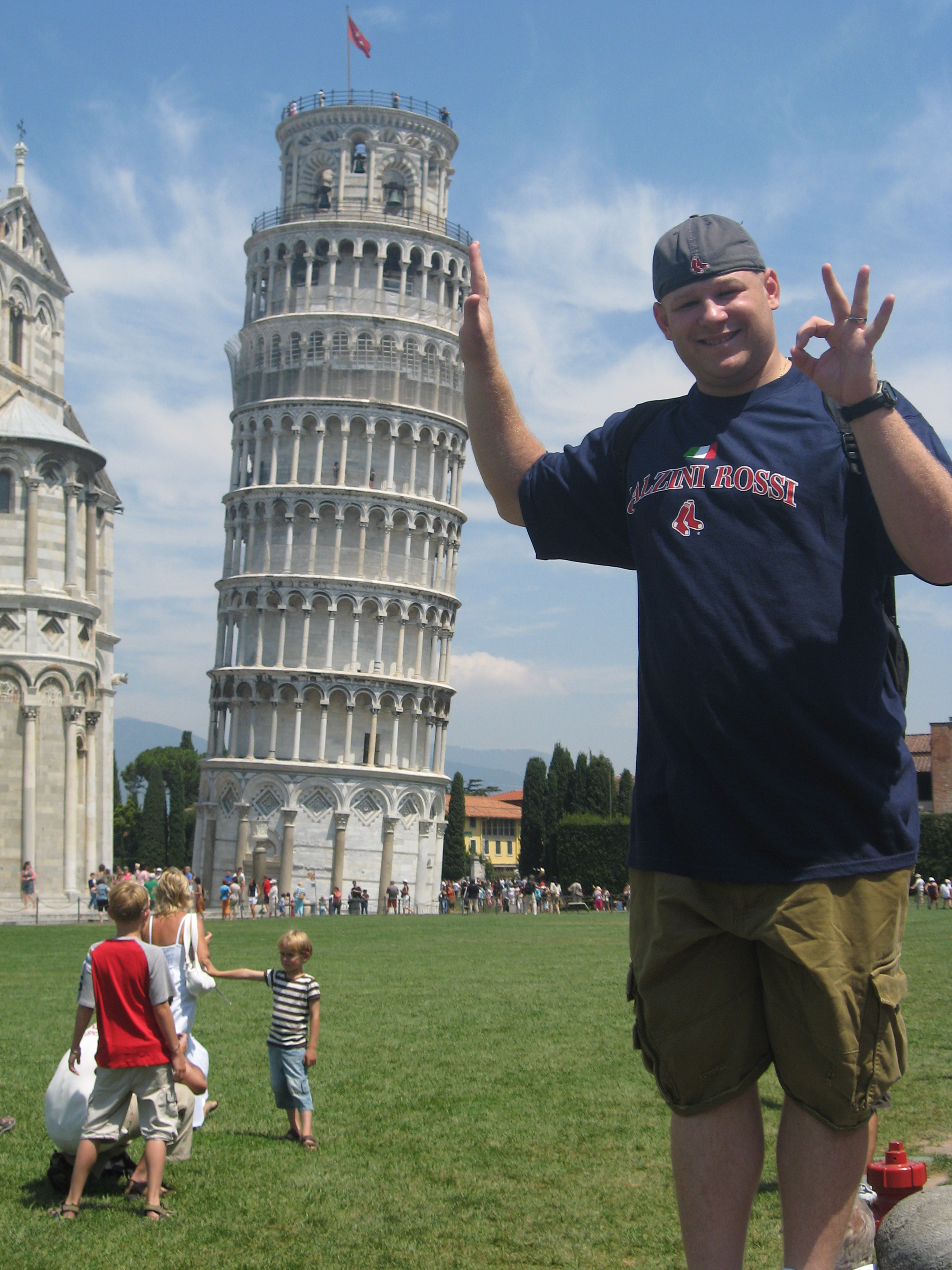 Picture of the leaning tower